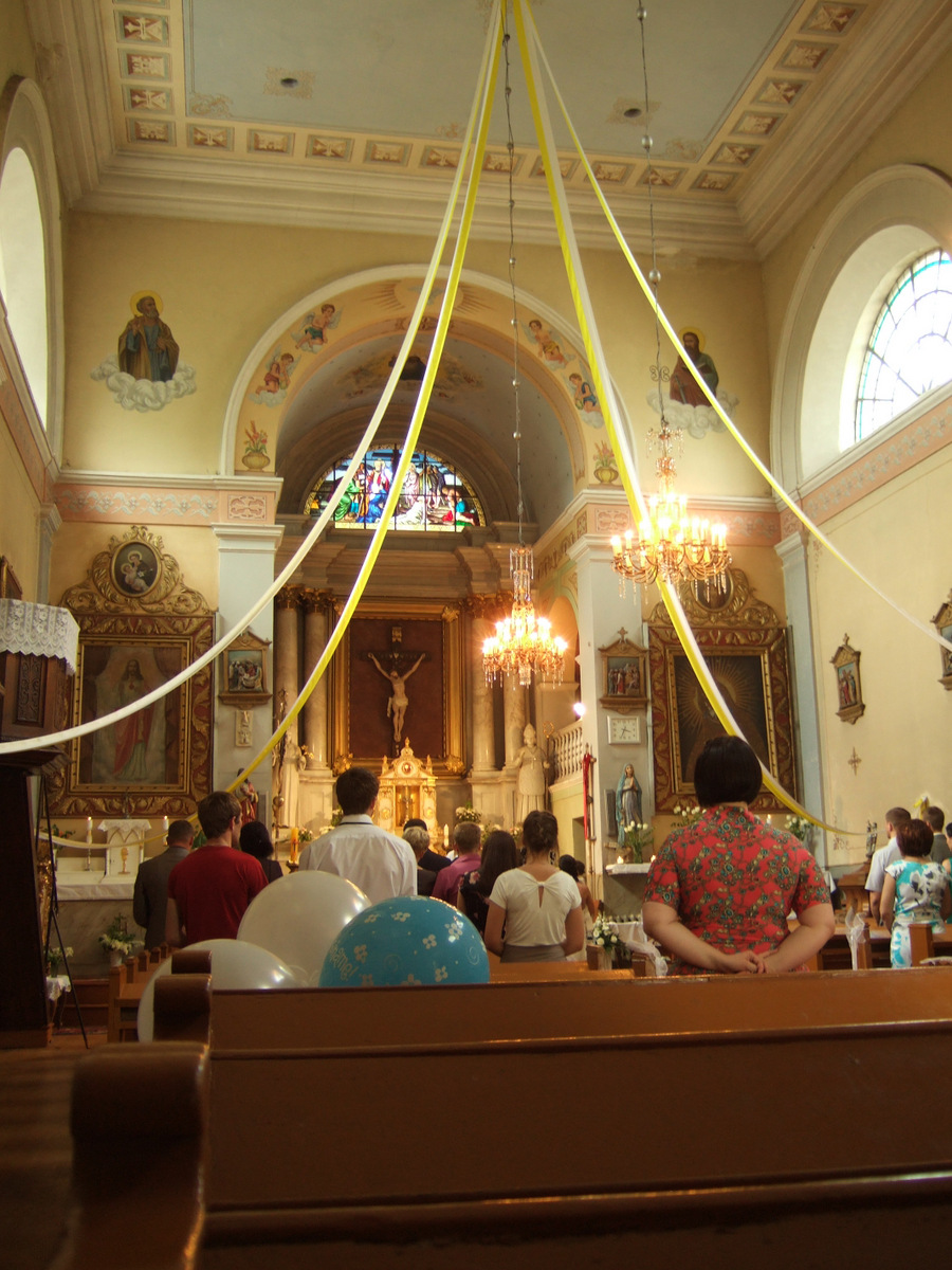 Church Taujėnai